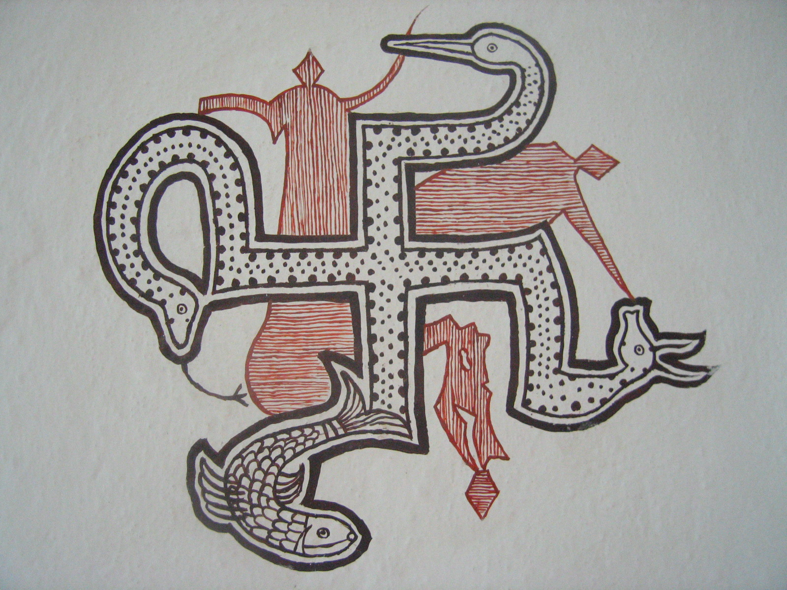 A wall painting of Swastika; village near Coimbatore, Tamilnadu, India